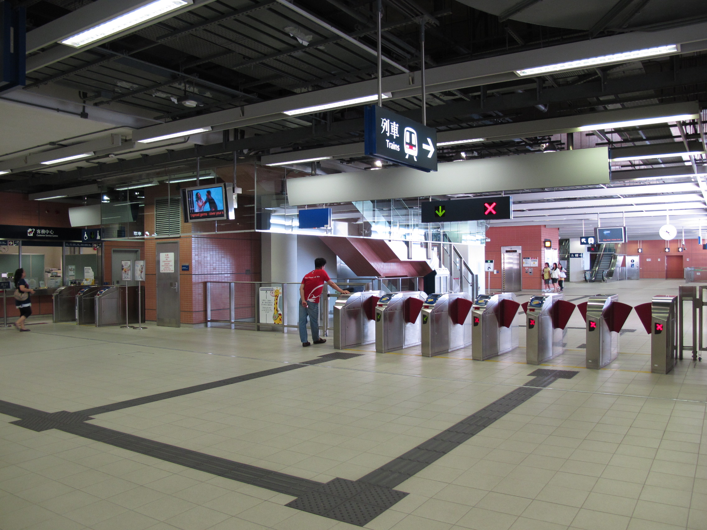 Wu Kai Sha Station Concourse